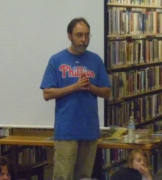 Author Dan Gutman speaks in South Orange, NJ.